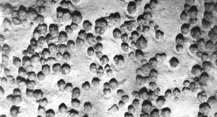 Manganese nodules from the seafloor are often rich in metals like manganese, iron, nickel, copper, and cobalt.